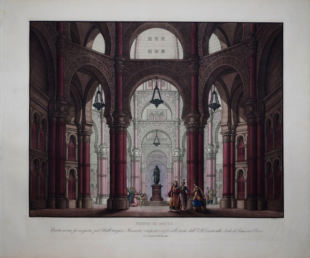 "Tempio di Mecca". Set design by Alessandro Sanquirico for Act I of Francesco Clerico's ballet "Maometto", created at La Scala, Milan, primavera 1822, music by Paolo Brambilla. Coloured aquatint by L. Castellini after a drawing by set designer Alessandro Sanquirico. Inscription : (in Italian) Tempio di Mecca. Questa scena fu eseguita pel ballo tragico, Maometto, composto e sesso sulle scene dell'I. R. Teatro alla Scala da Francesco Clerico, la primavera dell'anno 1822. A. Sanquirico inv. e dip. L. Castellini inc.